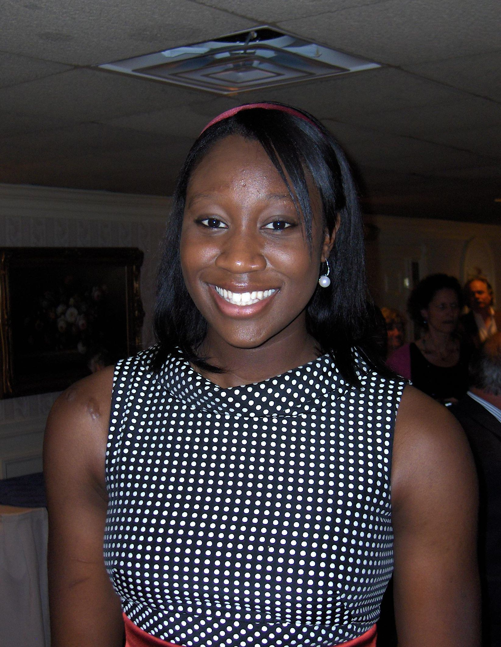 Tina Charles, taken at Championship Dinner